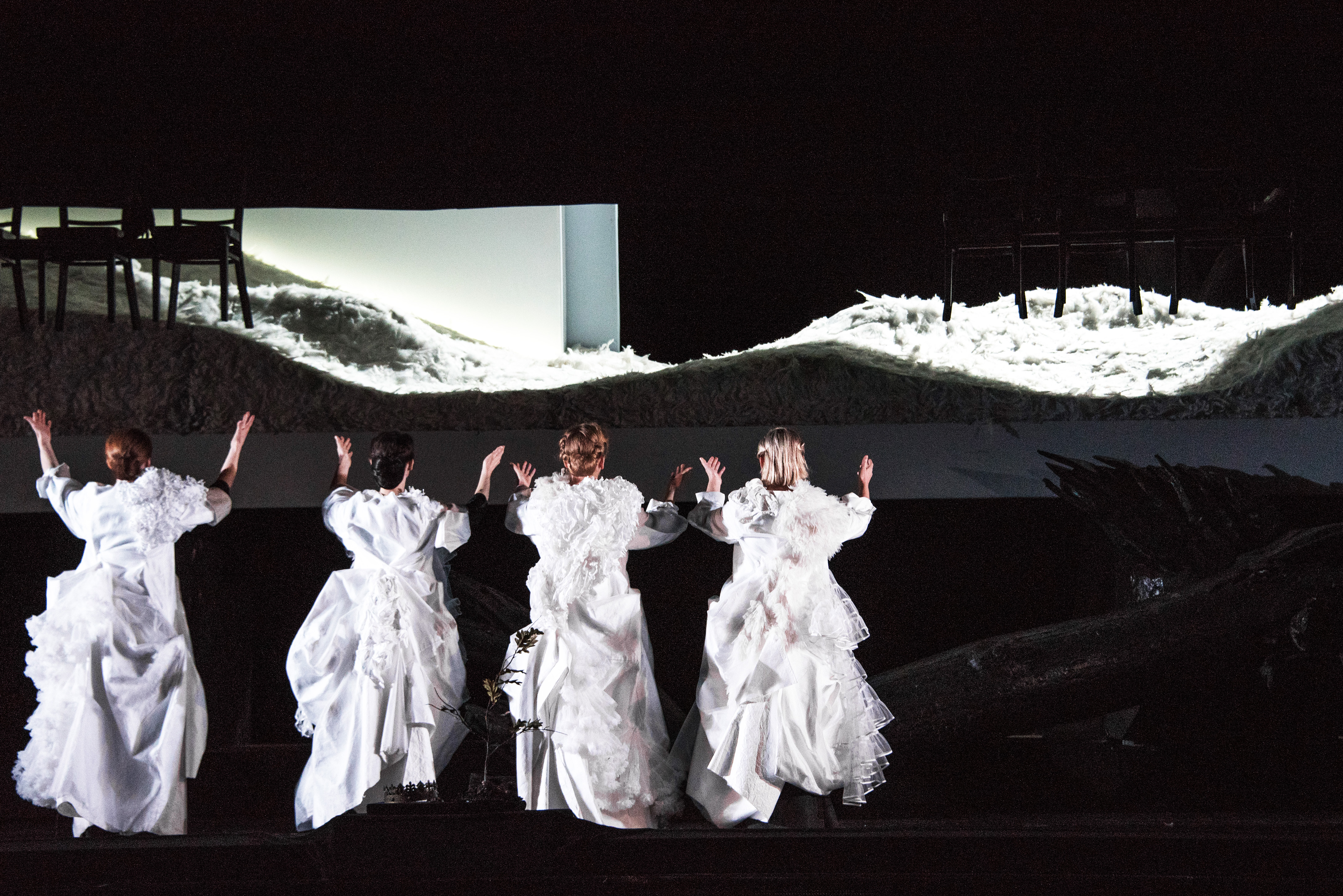 Lohengrin by Richard Wagner, Opera Oslo 2015